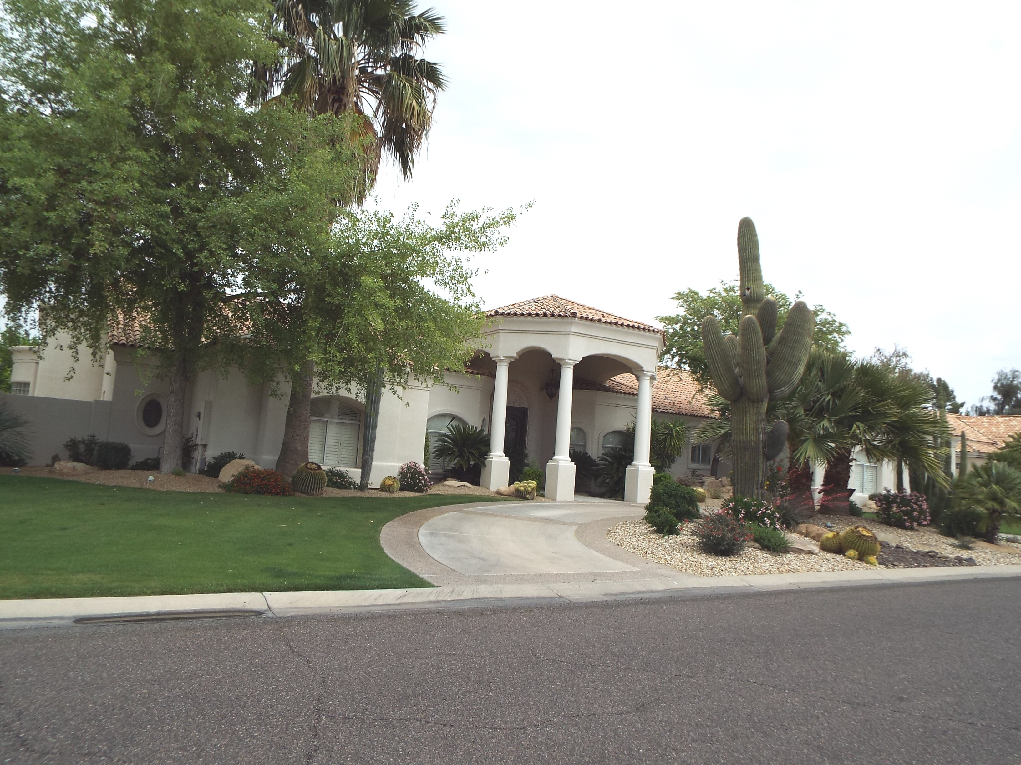 The Walter Winchell House was built in 1954 and located at 6116 (now 6118) E. Yucca Street in Scottsdale, Az. Walter Winchell was a newspaper columnist credited with inventing the gossip column.[1]